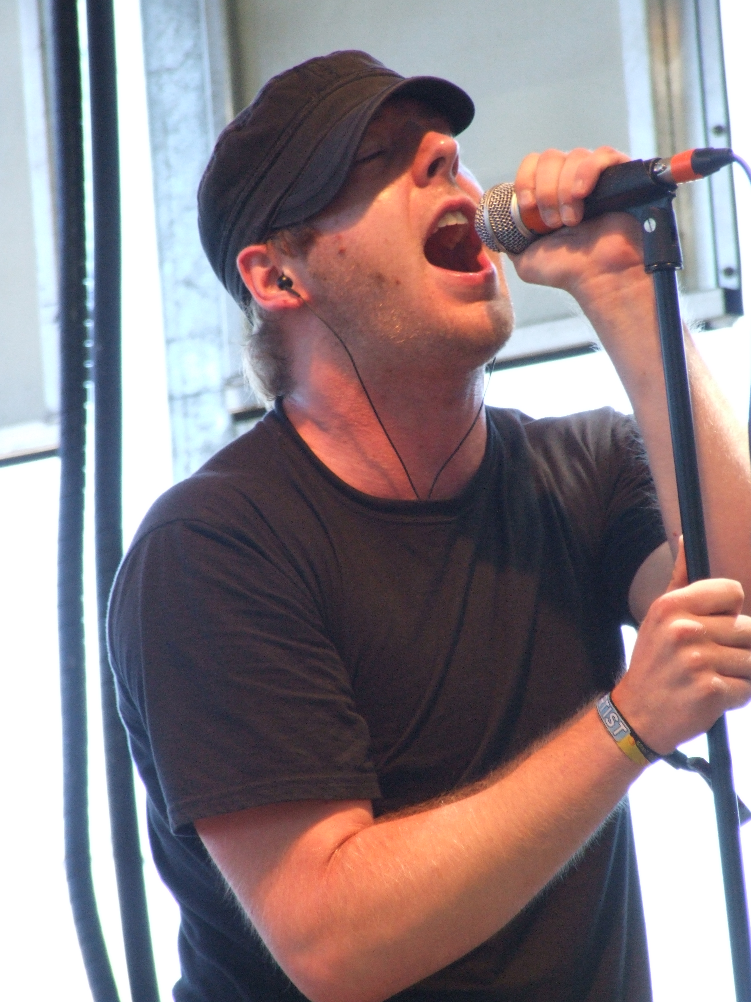 Innerpartysystem Lollapalooza Chicago Grant Park Saturday August 2'nd 2008